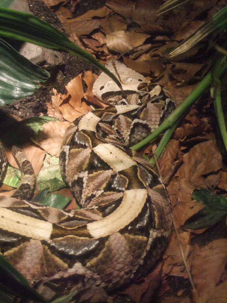 Gaboon Viper (Bitis gabonica rhinoceros